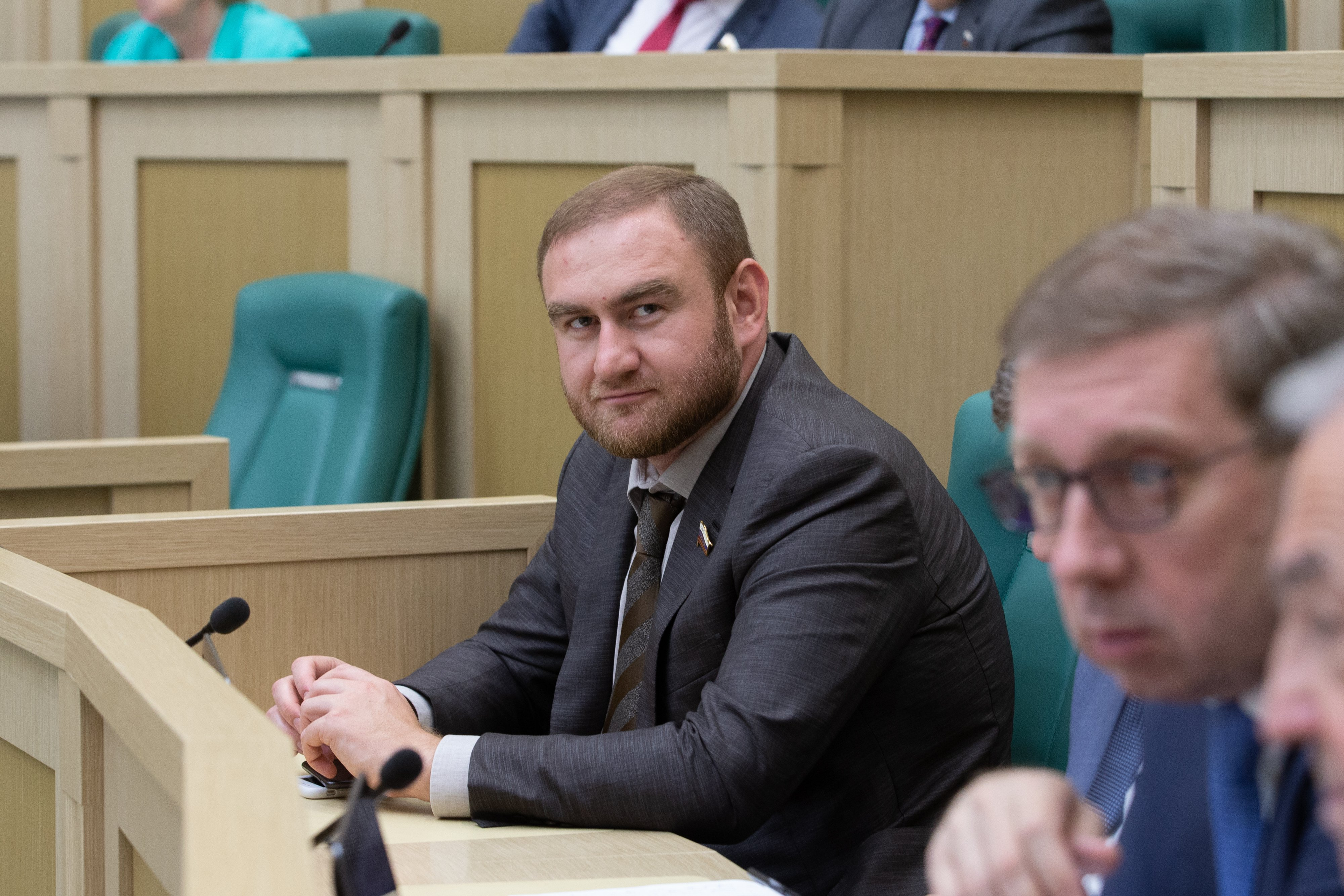 Rauf Arashukov during the 440th meeting of Russia's Federation Council.